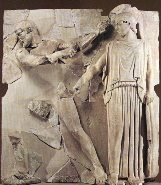 metope from the temple of zeus